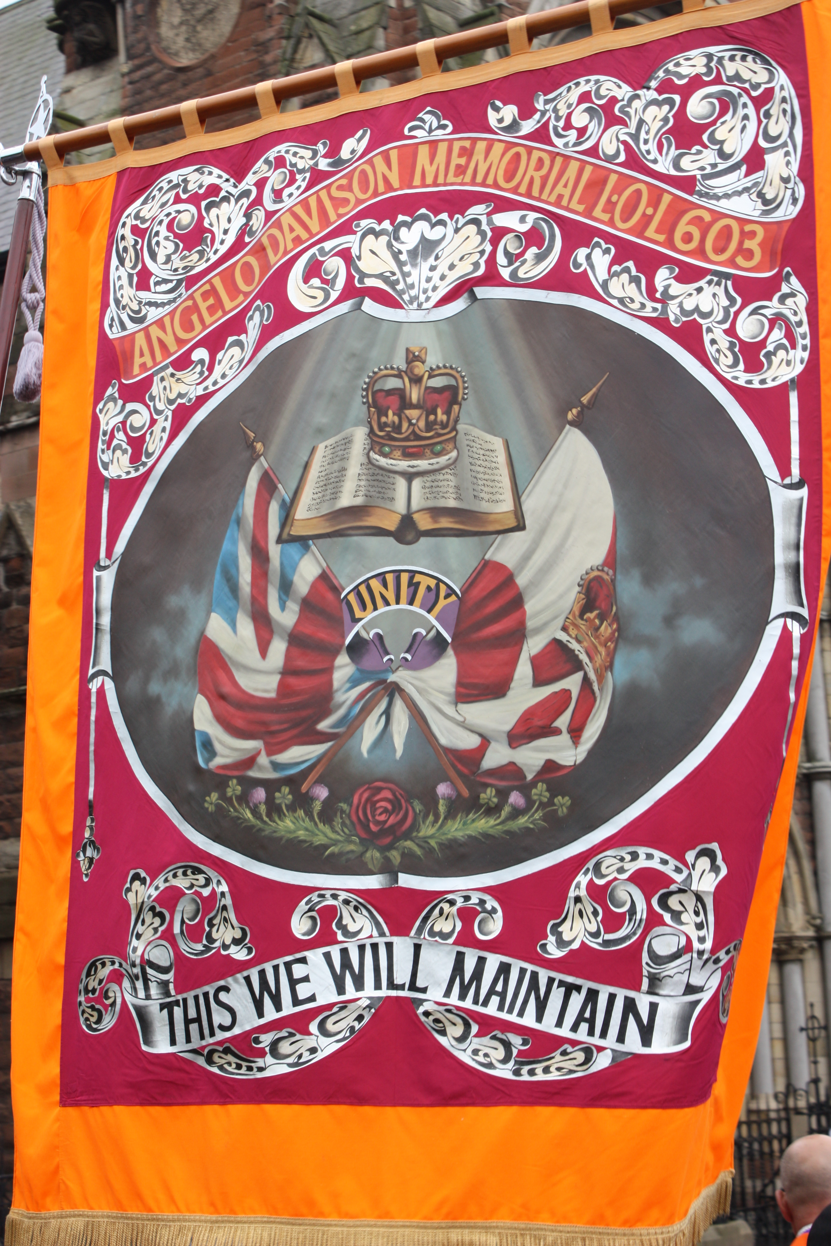 Banner, 12 July Orange Parades, Donegall Street, Belfast, Northern Ireland, July 2011 (Angelo Davison Memorial Loyal Orange Lodge 603)